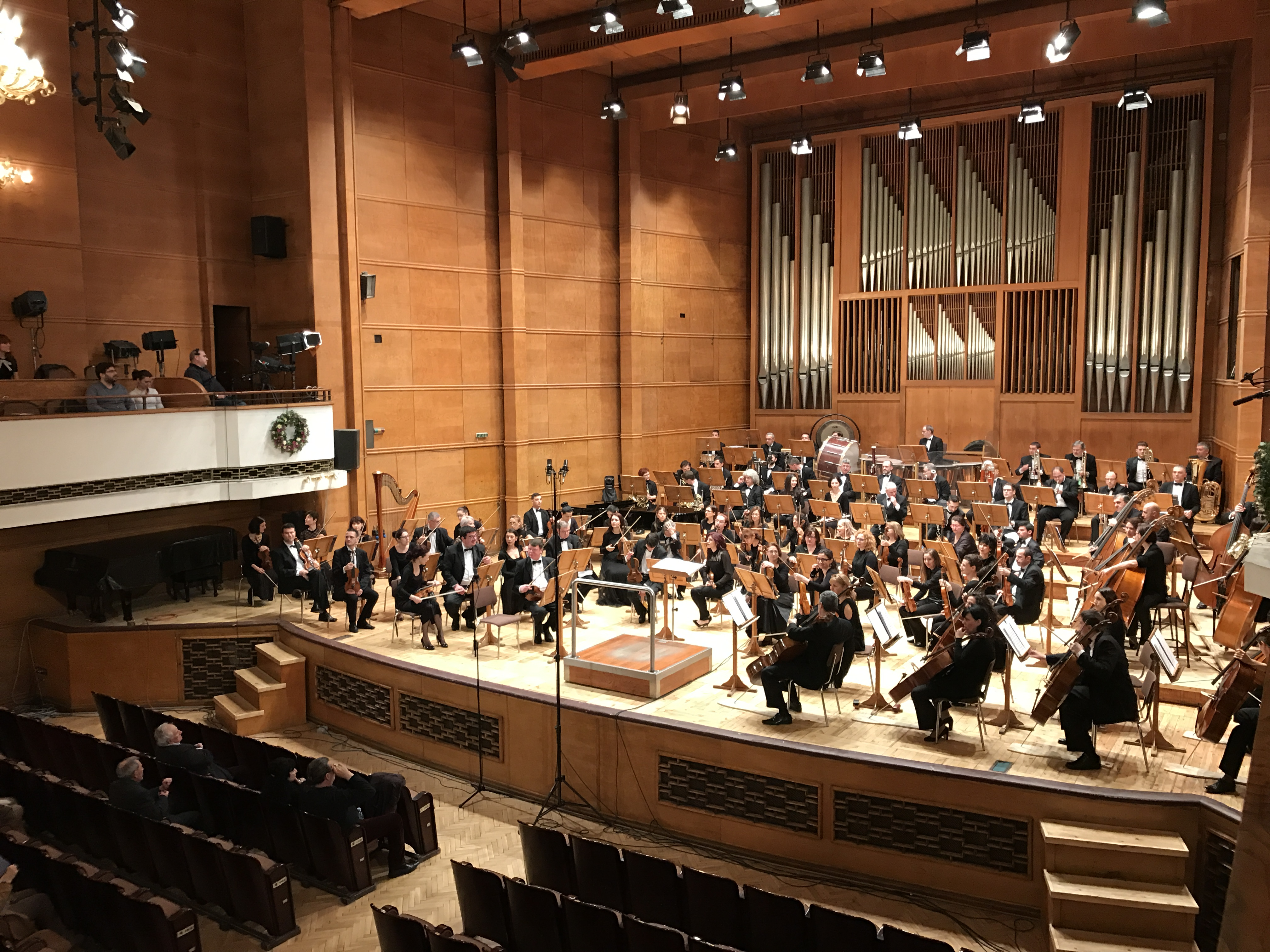 Bulgaria hall